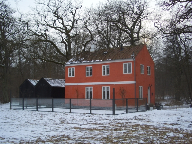 Den Røde Cottage in Klampenborg designed by Gottlieb Bindesbøll. The building is the former kitchen of the Klampenborg Vandkur-, Brønd- og Badeanstalt and is now as a work of Bindesbøll fredet, i.e. part of the architectural heritage of Denmark. Since 2010 it accommodates a restaurant by the same name, which had been granted in 2012 and 2013 a Michelin-star.